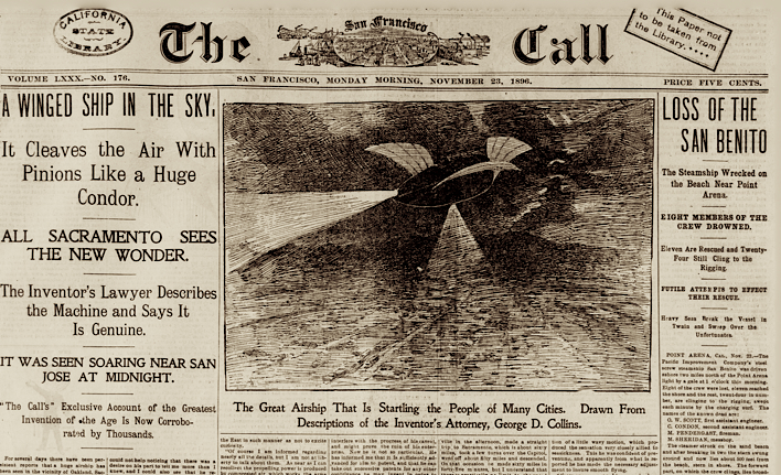 "Mystery Airship“-Headline